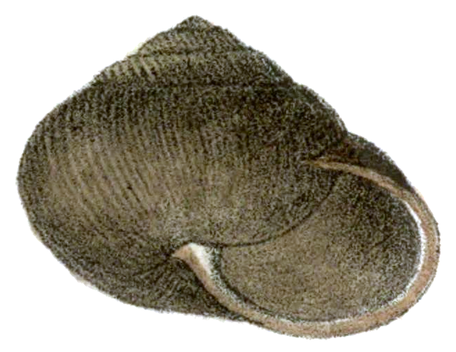 drawing of apertural view of the shell of Pommerhelix monacha, synonym: Helix (Dorcasia) cailleti